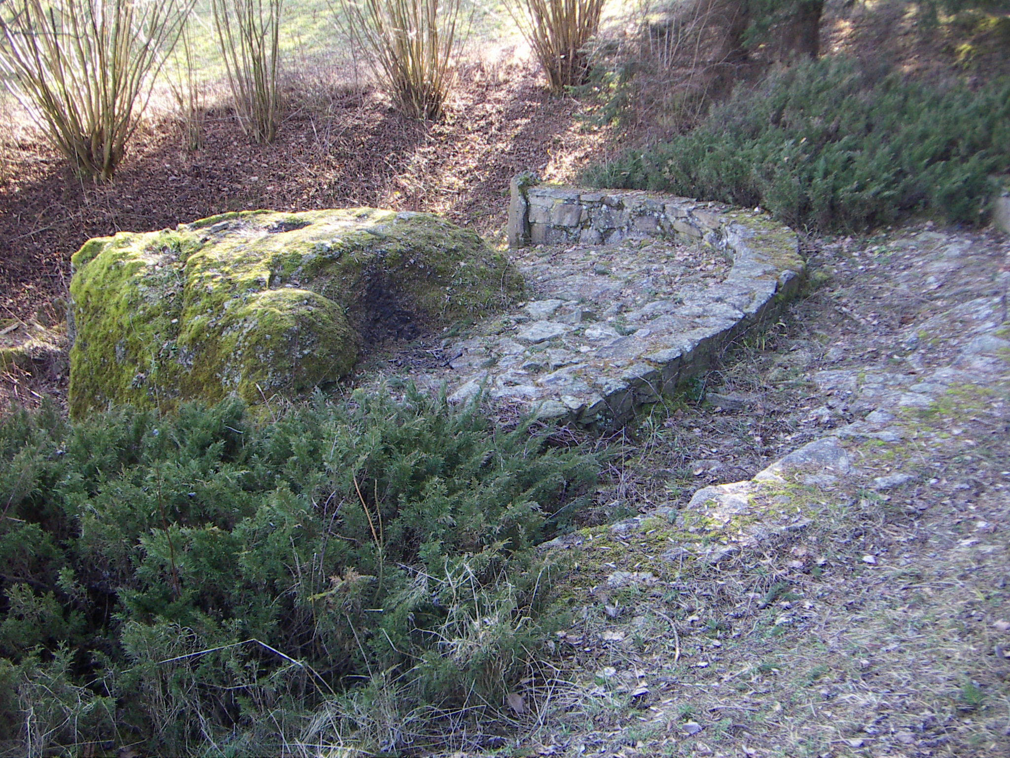 The photograph shows a mesolithic cult stone found along with archeological excavations at a site called "Berglitzl" near the village of Gusen, Austria. "Berglitzl" appears to be one of the most important prehistoric cult places in Central Europe. Findings give evidence of continuous regligious cults between the paleolithic period and the bronze age.